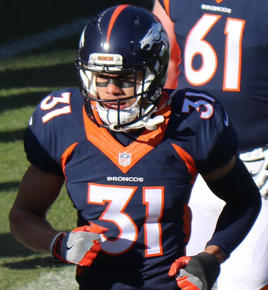 Justin Simmons, a player on the National Football League.